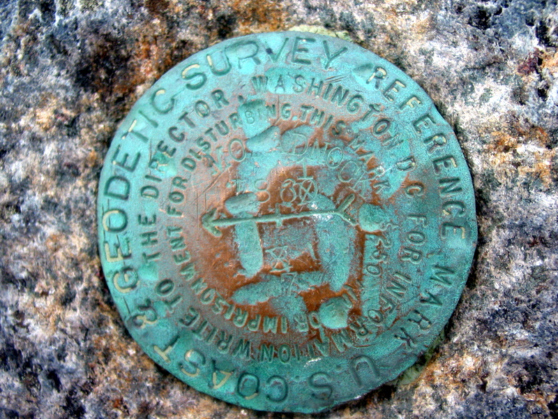 I took this photo on the summit of Mt. Monadnock in New Hampshire on July 27, 2006.